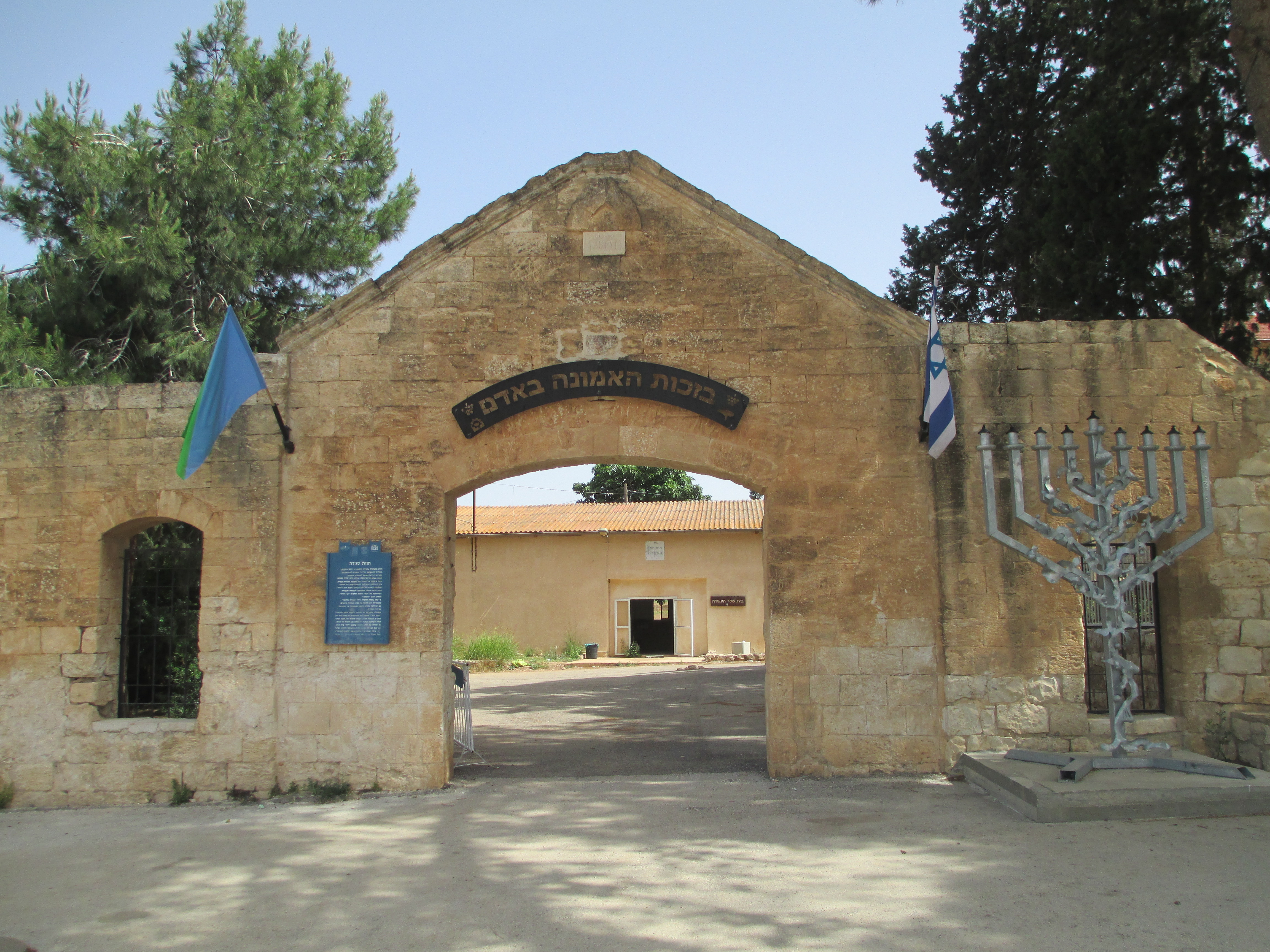 Hashomer farm